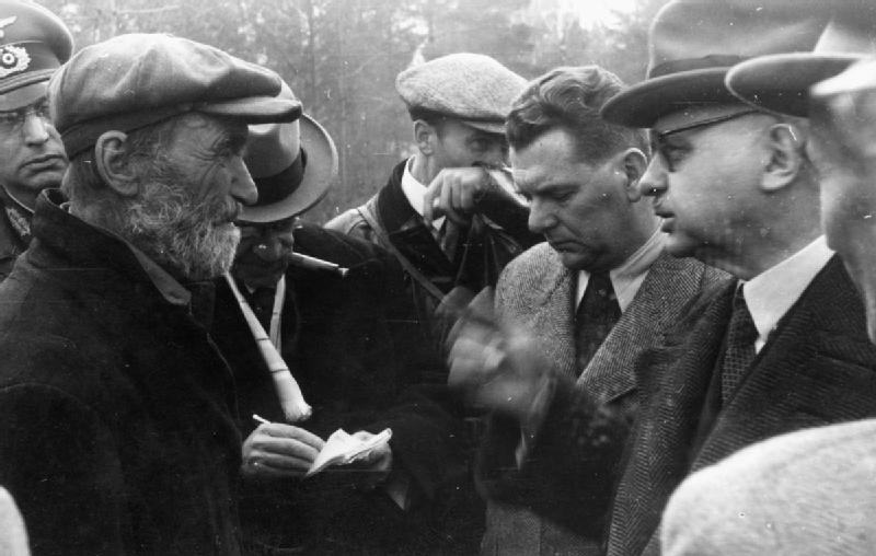 One of the witnesses of the massacre, Parfemon Kiselev, a local resident of Katyn area, listening to Dr Ferenc Orsós, Professor of Forensic Medicine and Criminology at the University of Budapest. Dr Marko Markov, a reader of Forensic Medicine and Criminology at the University of Sofia can be seen on Dr. Orsos' right.